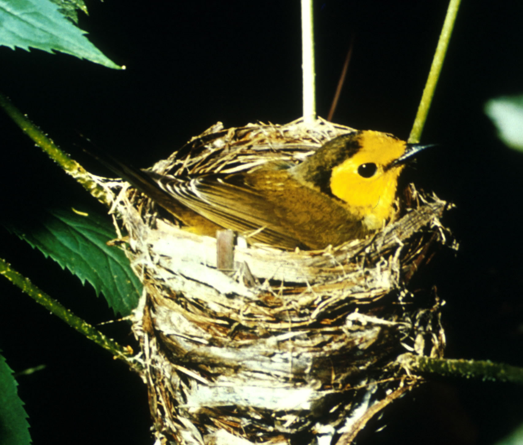 Hooded Warbler (Wilsonia citrina)